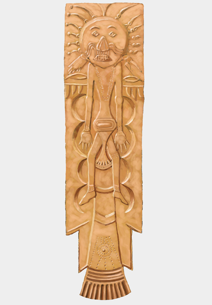 A Mississippian culture design from a repoussé copper plate discovered at the Lake Jackson Mounds Archaeological State Park, the plate is known as the "Elder Birdman".